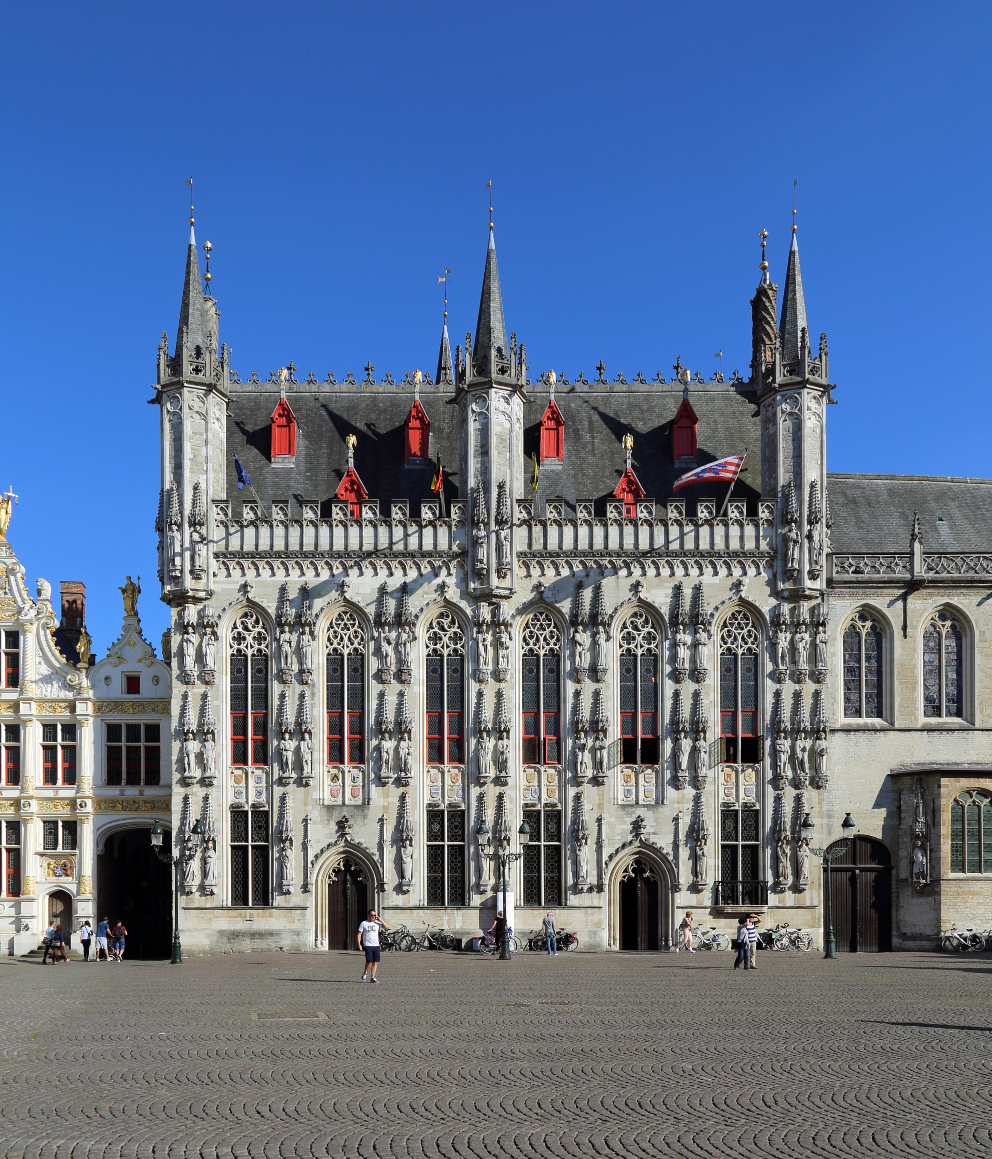 Bruges (Belgium): town hall